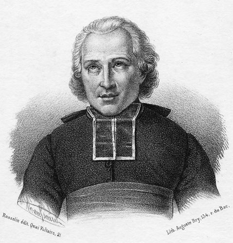 Abbé Grégoire (1750-1831)